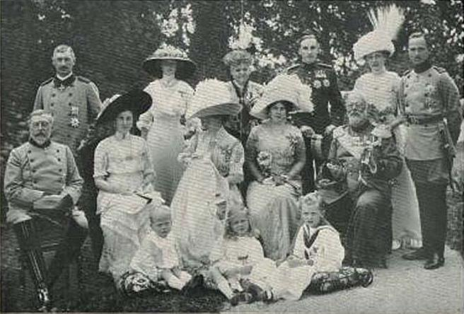 Family of Saxe-Coburg and Gotha; with his spouse Princess Viktoria von Schleswig-Holstein-Gluecksburg and their children Prince Hubertus, Princess Sybille, Her. Prince Johann Leopold of Saxe-Coburg-Gotha) -standing Prince Albert of Schleswig-Holstein-S.G. and Pss Karoline Mathlde, Dss of Albana, Prince Alphons of Bourbon-Orleans, Freiin von Thuena, Duke Carl Eduard of Saxe-Coburg-Gotha, in the middle sitting: Prince Philipp of Saxe-Coburg-Gotha, Pss Albert zu Schleswig-Holstein-S.G. Dss Victoria Adelheid of Saxe-Coburg-Gotha with the christened child Pss Karoline Mathilde of Bourbon-Orleans, Prince Ludwig of Bavaria